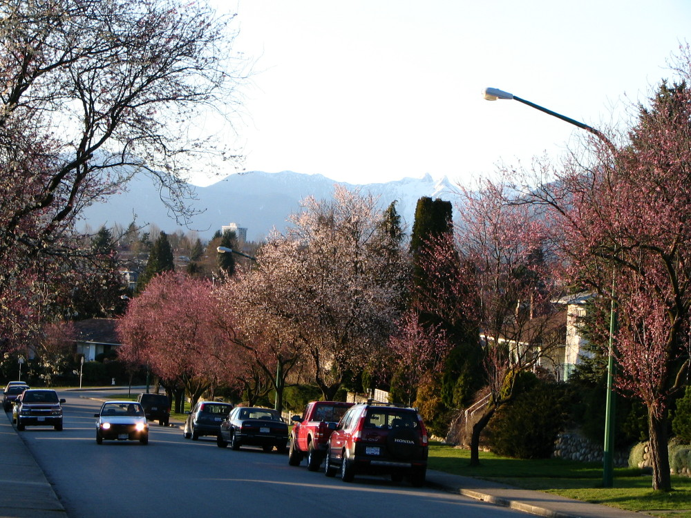 This image was created by me, Flying Penguin of Pacific Spirit Photography ( of Burnaby, British Columbia, Canada.